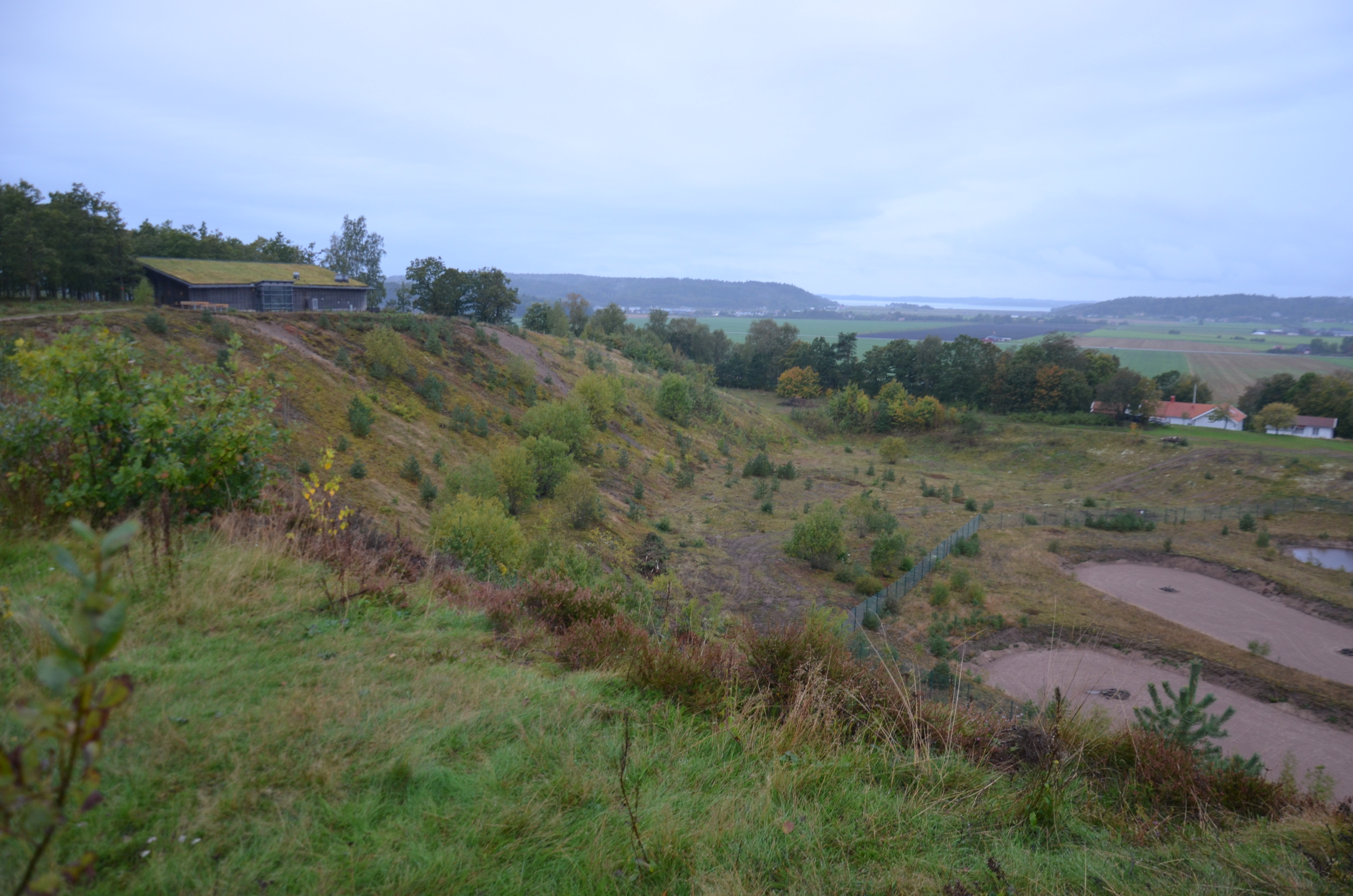 Naturum Fjärås Bräcka